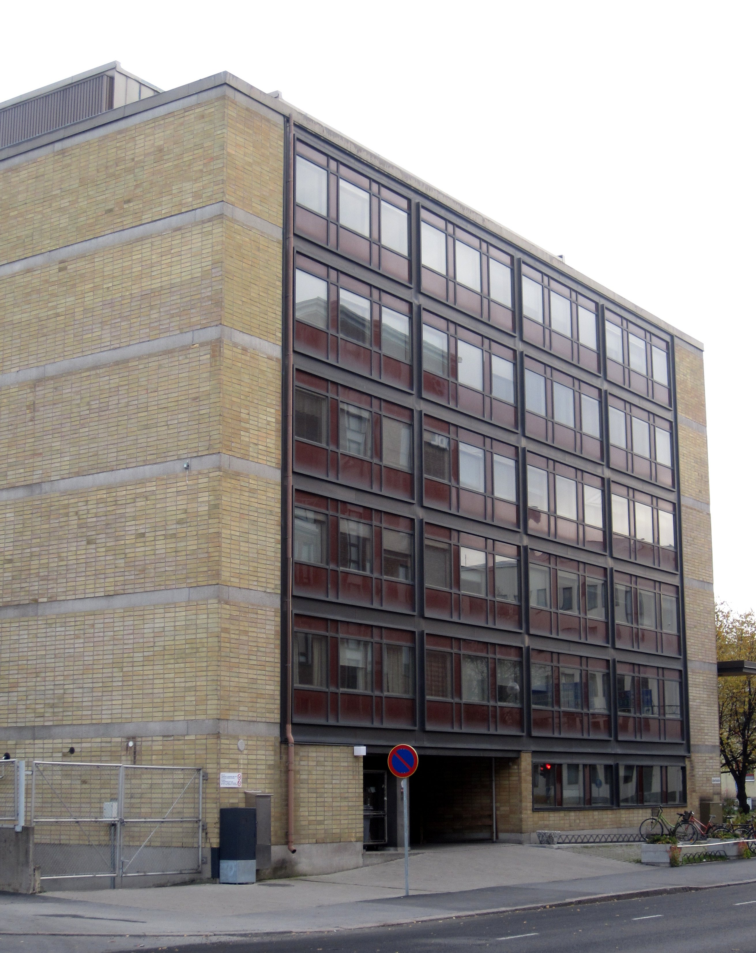 Diaconia University of Applied Sciences in Oulu and Oulu Diakonia College. The school building was completed in 1976 and it was designed by architect Risto Harju.